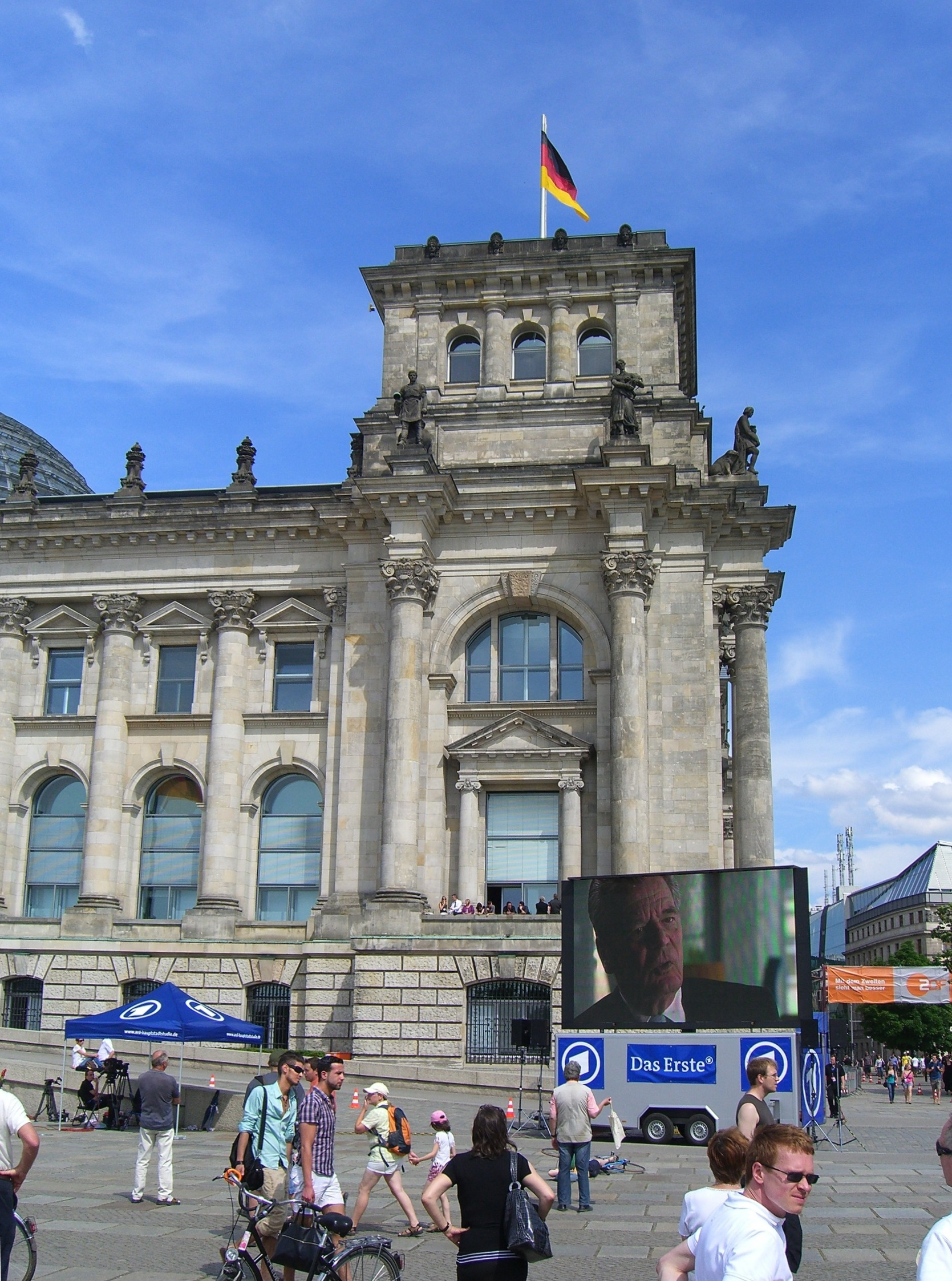 Outside the Reichstag during the 14th German presidential election.